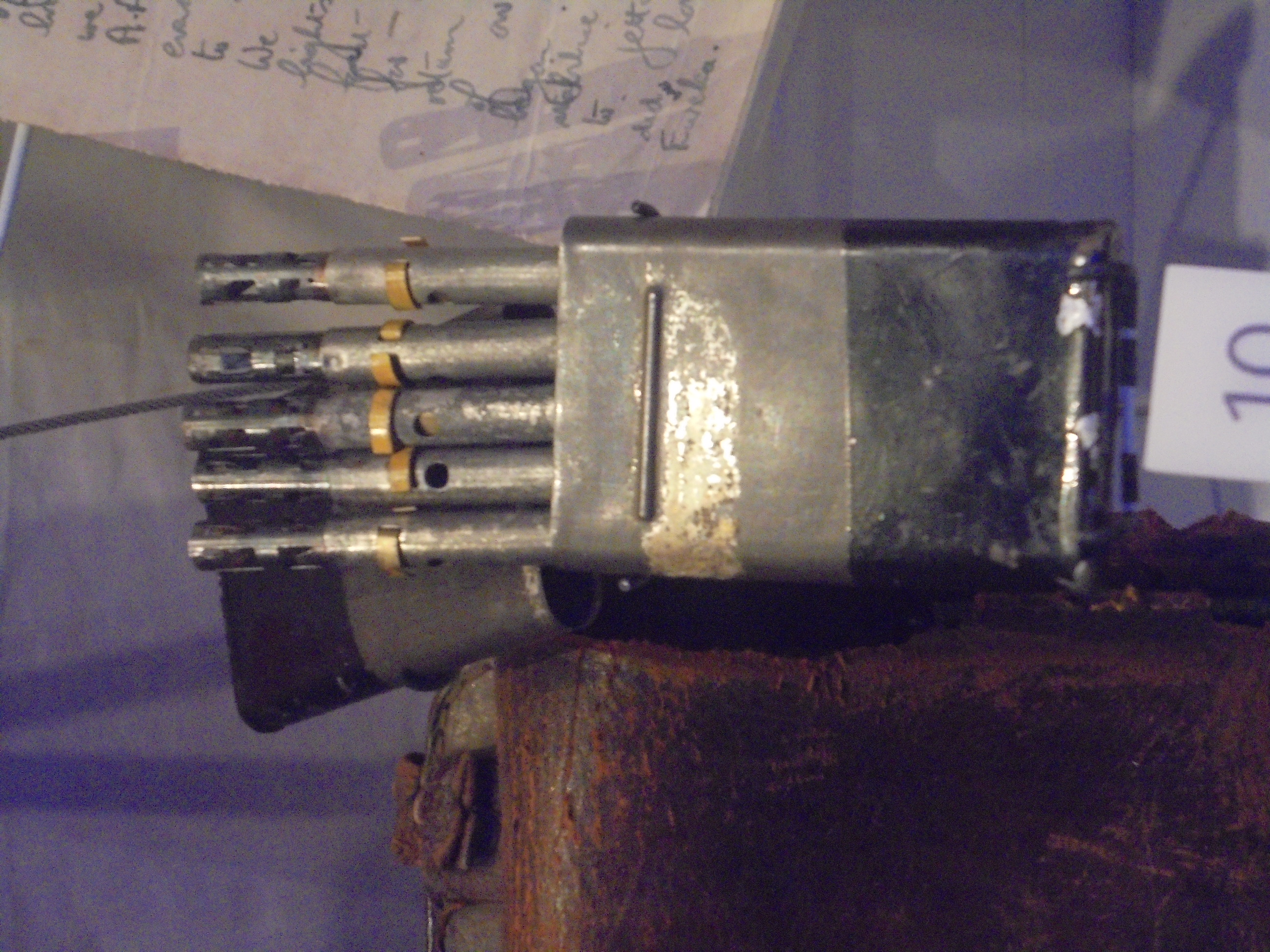 Time pencils in a box, IWM